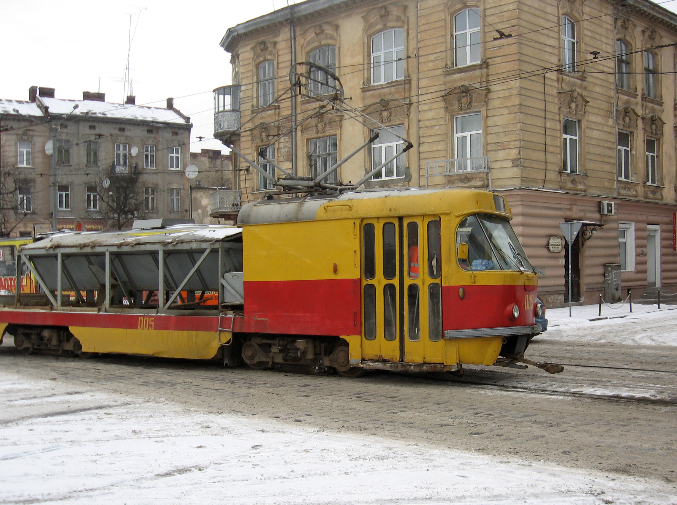 Freight Tatra T4 in Lviv, Ukraine.